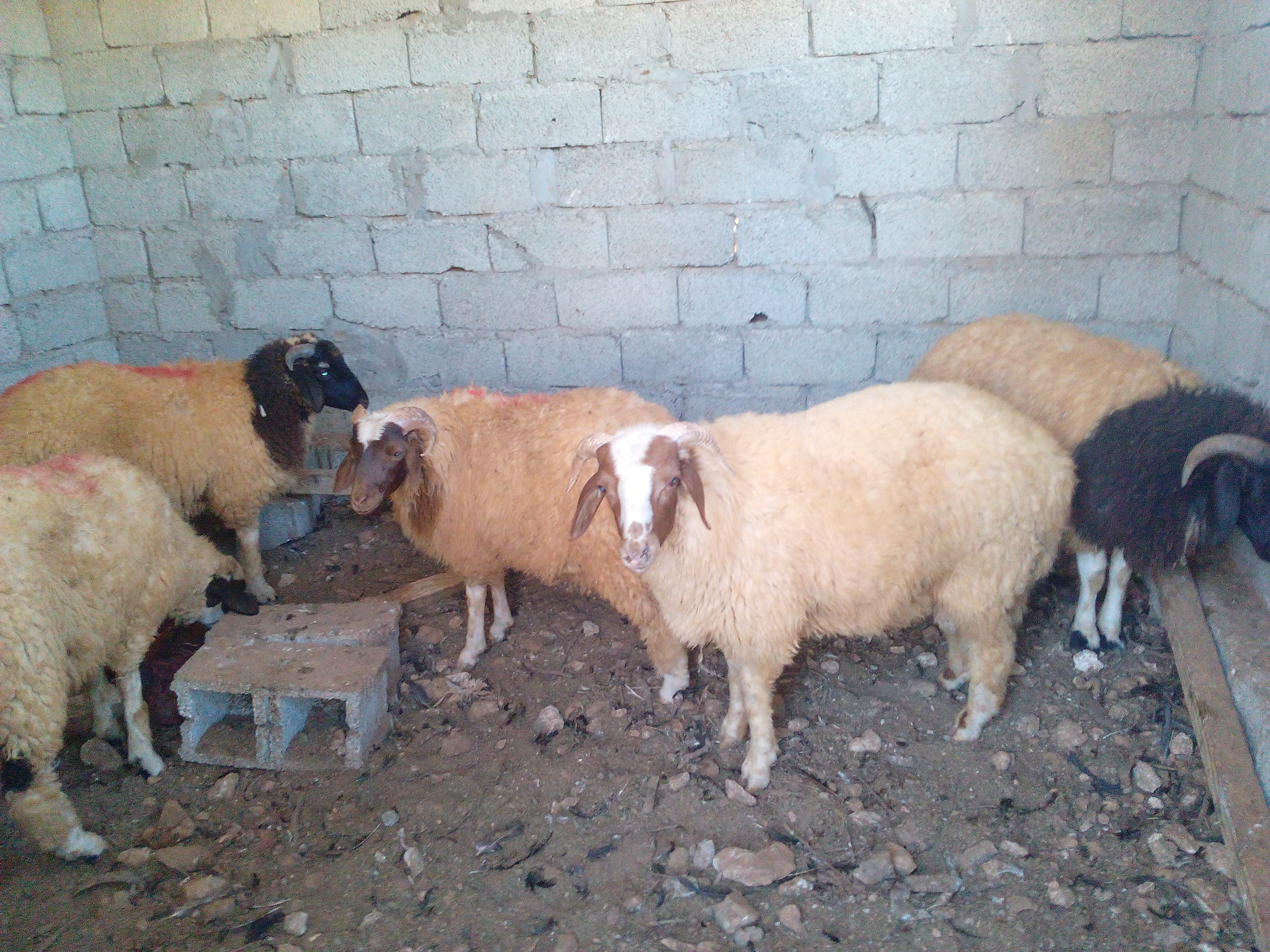 Burqawi sacrifice in the city of Bayda on the day of Arafah